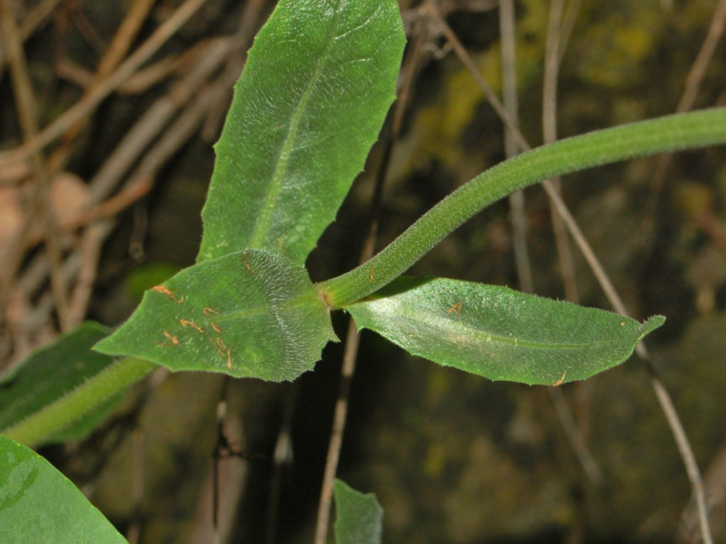 Urospermum dalechampii - Genova, Italy